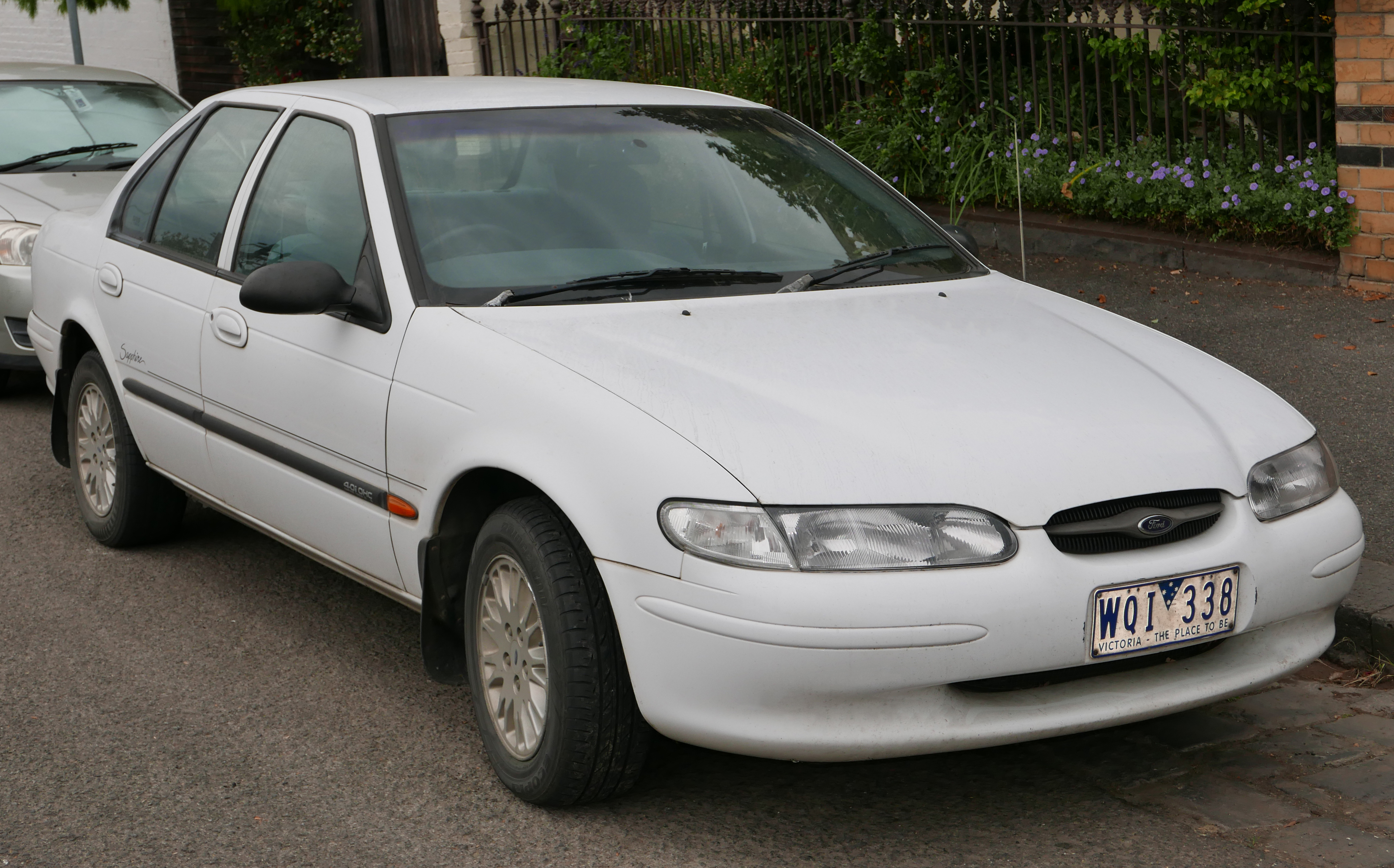 1998 Ford Falcon (EL) GLi Sapphire II sedan. Photographed in Princes Hill, Victoria, Australia. Vehicle registration enquiry results Jurisdiction Victoria Registration WQI338 Chassis code 6FPAAAJGSWWM59046 Engine code JGSWWM59046 Compliance date 1998-07 Year of manufacture 1998